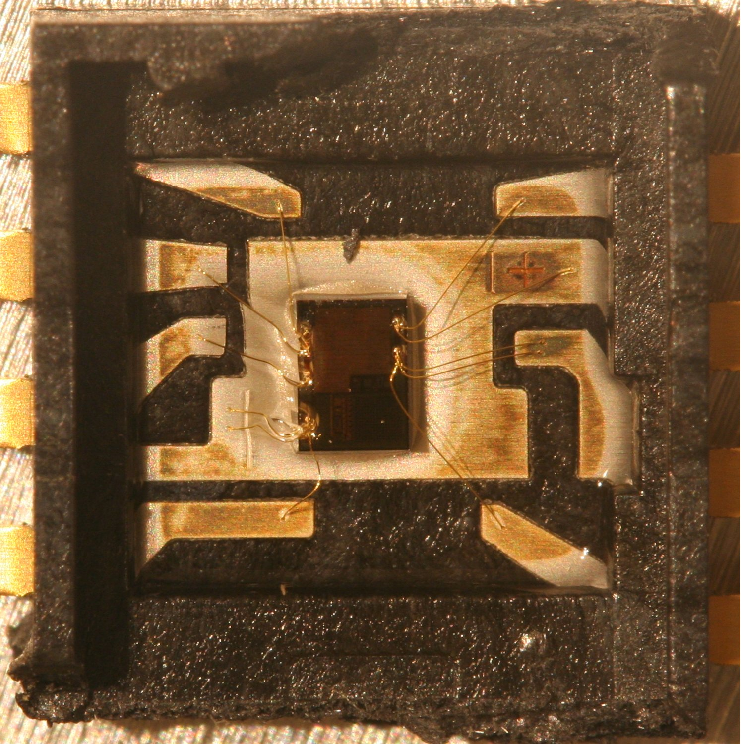 This sensor from a optical mouse contains a 15x15 image array, a digital signal processor and a LED diode driver. It continuously captures images, analyzes them and converts to the horizontal and vertical offsets.